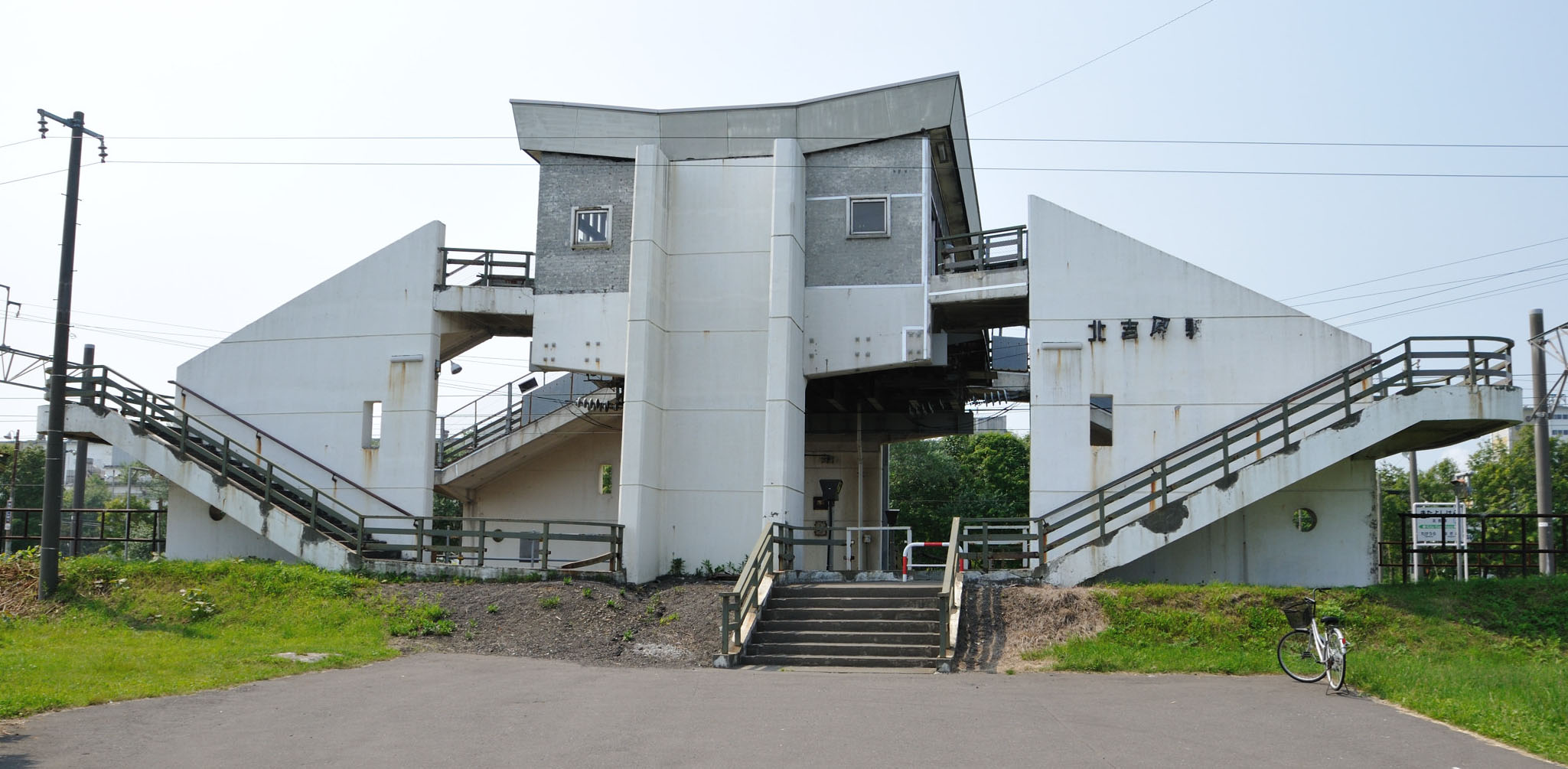 Kitayoshihara station, Shiraoi, Hokkaido, Japan